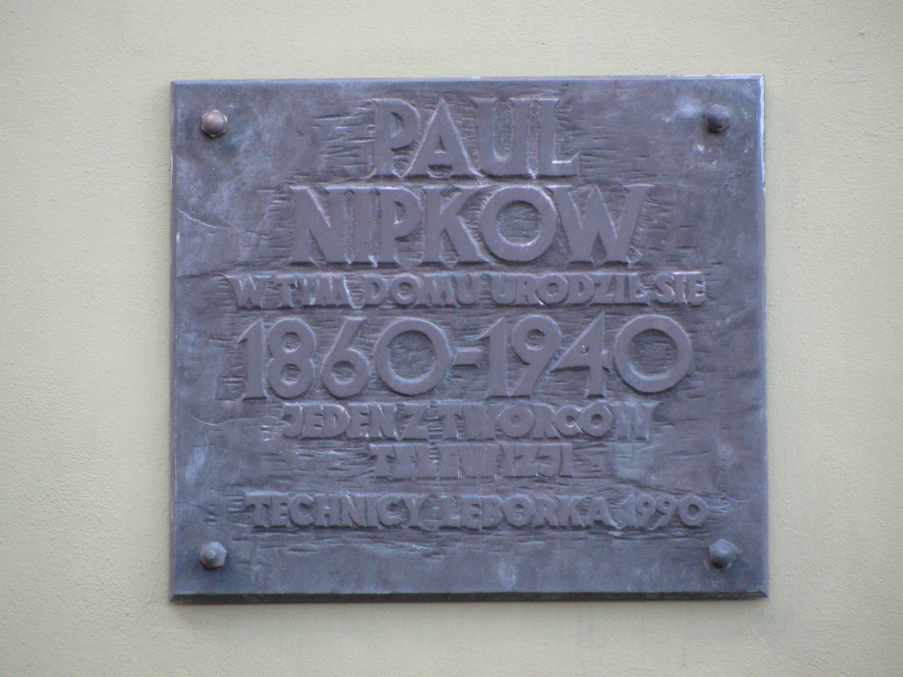 Paul Nipkow house in Lębork (Lauenburg), Poland today, in year 2009, Młynarska Street. Translation from